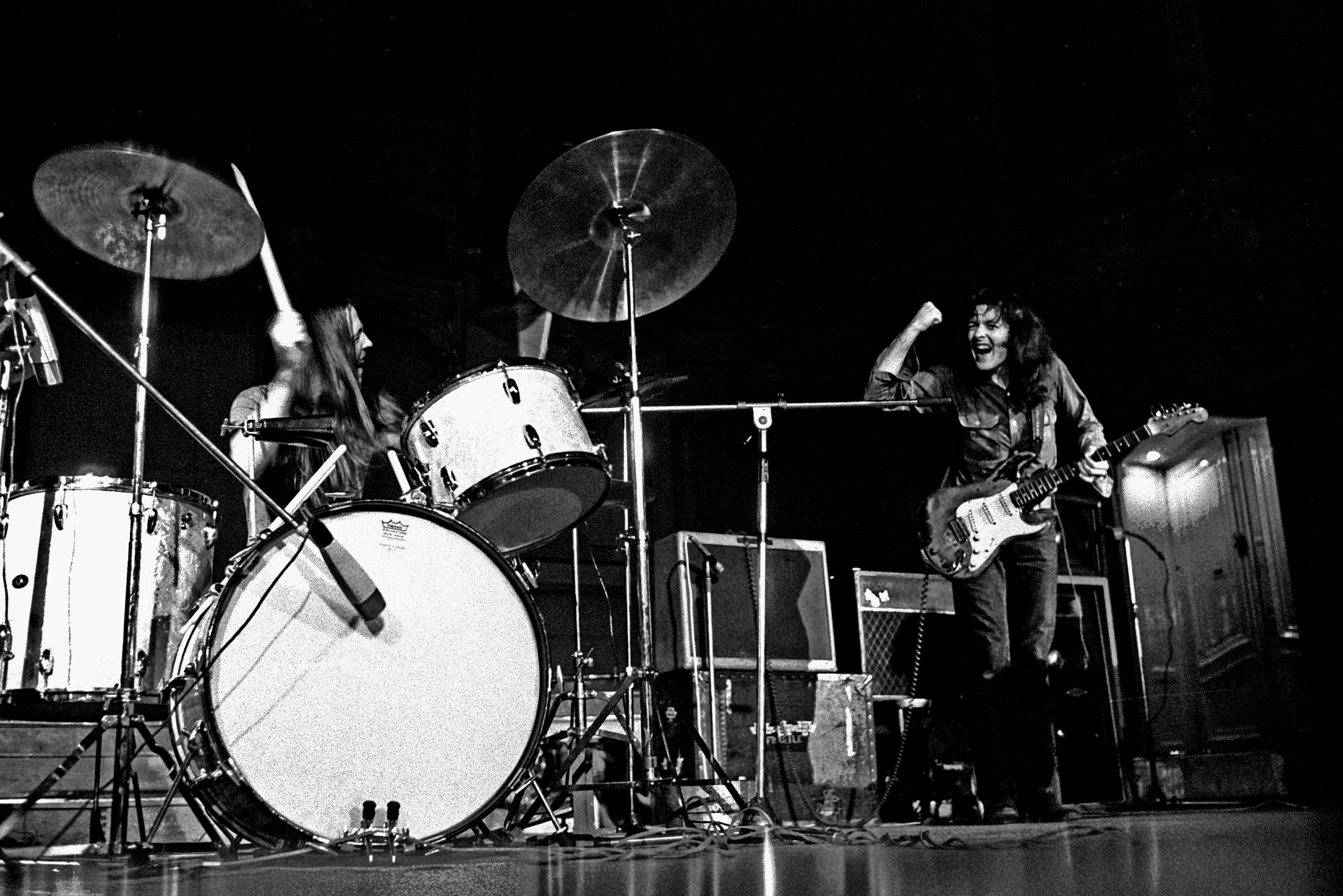 From a fan, for the fans: Some more photos of the Rory Gallagher-Sessions in Hamburg, 1971/1973: From left to right: Gerry McAvoy, Rod d'Ath, and Rory Gallagher